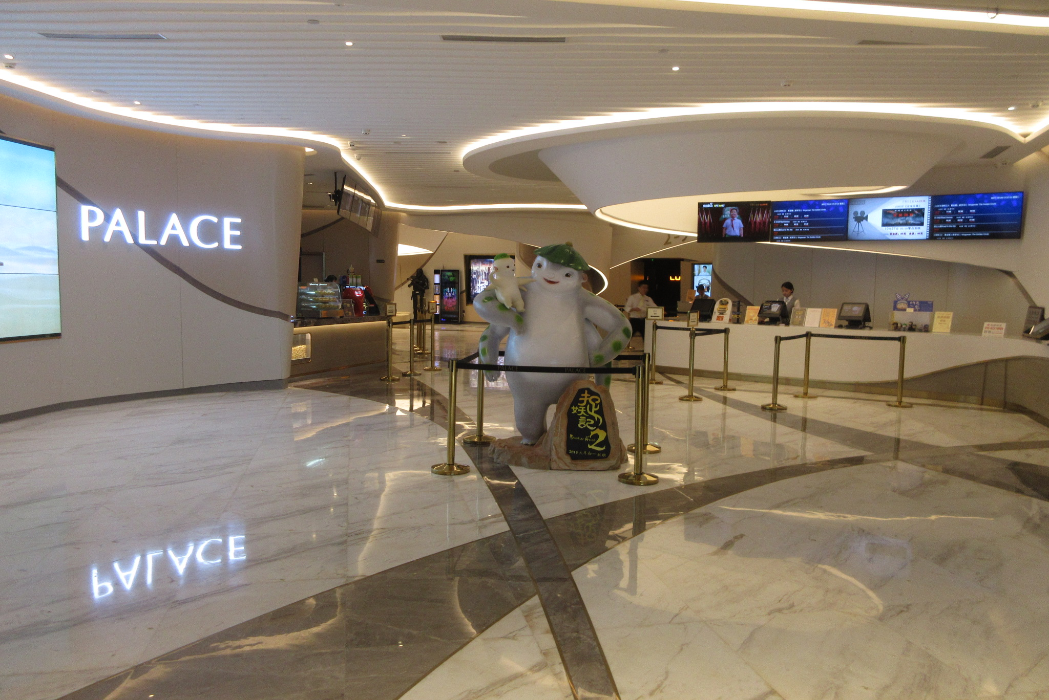 SZ 深圳 Shenzhen 南山 Nanshan 南海大道 Nanhai Blvd 來福士廣場 Capitaland Raffles City Mall in October 2017